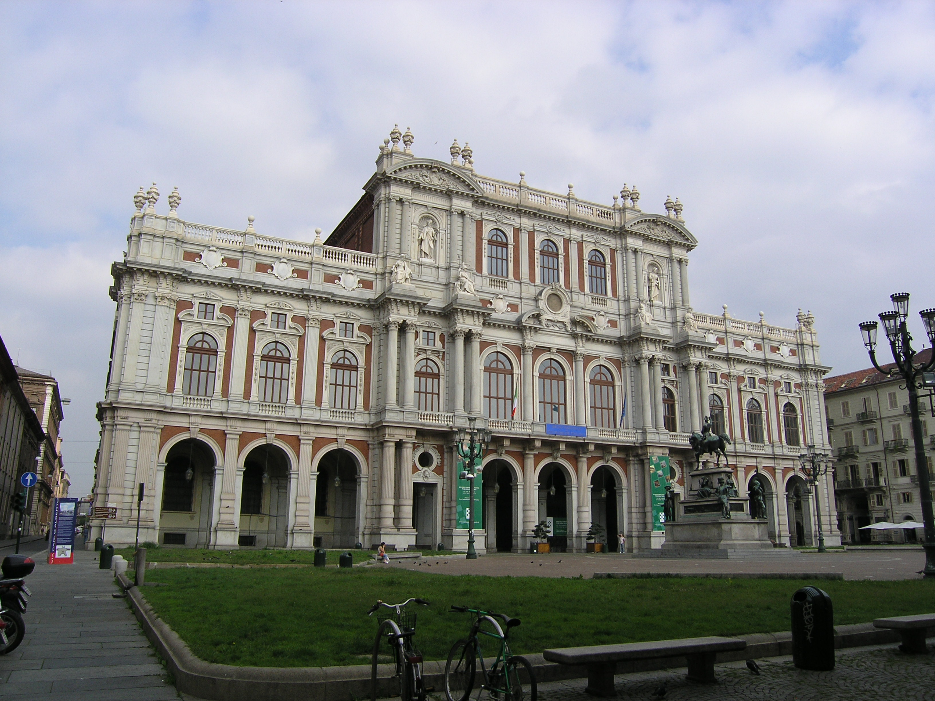 Rear of palace Carignano, Turin (Italy)